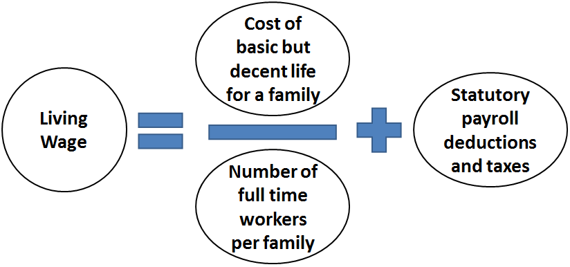 Diagram for calculating a living wage.